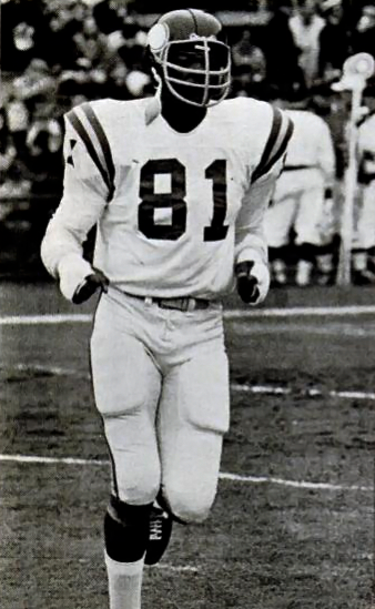 Former Minnesota Vikings defensive end Carl Eller